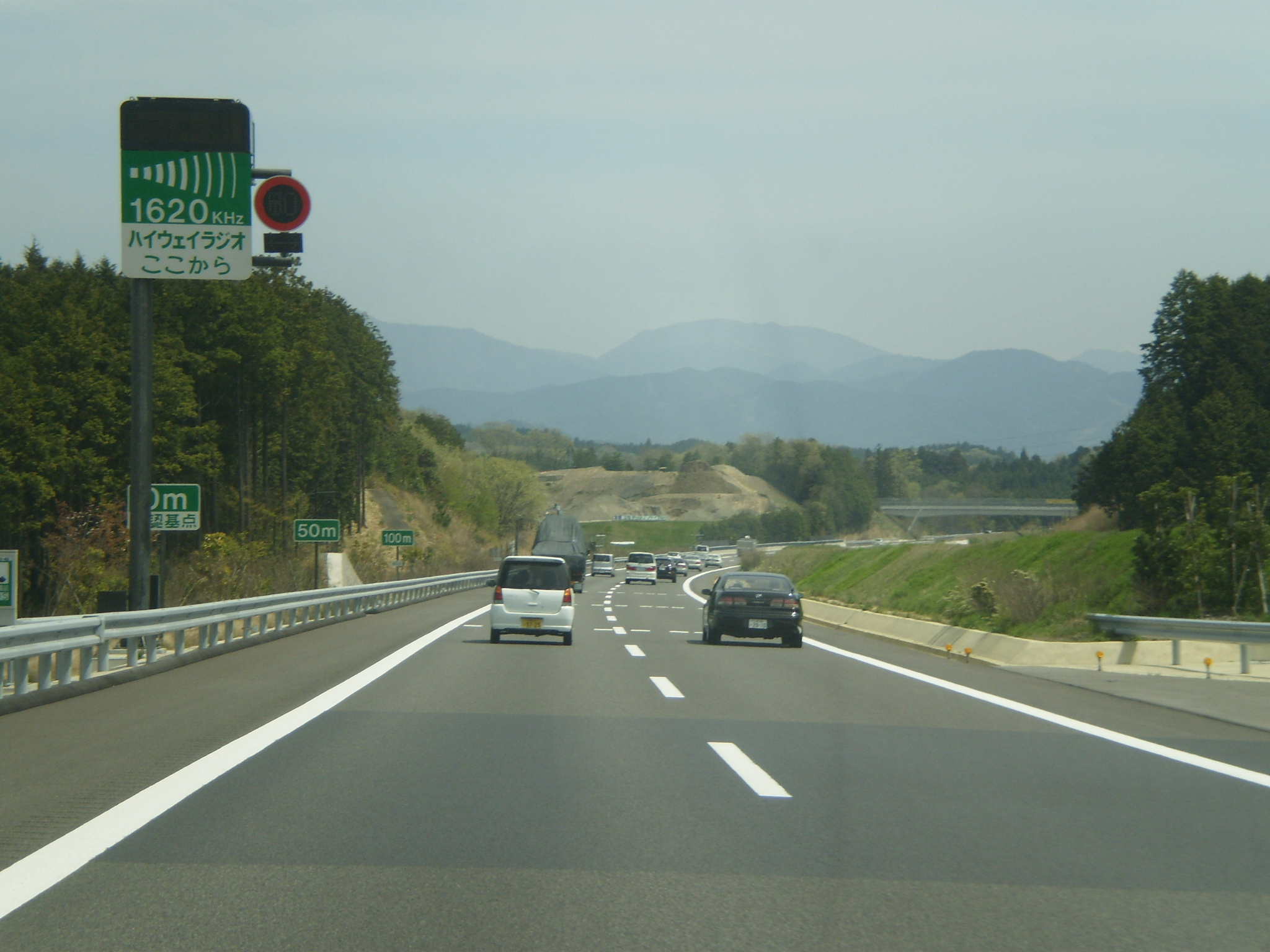 Highway radio of expressway. I took this image at Jinpo Koka-cho Koka City Shiga Pref., Japan.